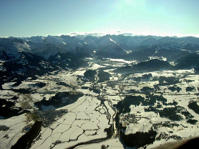 Iller-Valey Aerial Photography taken while paragliding lat=47.51849 lon=10.26612 ele=2100m